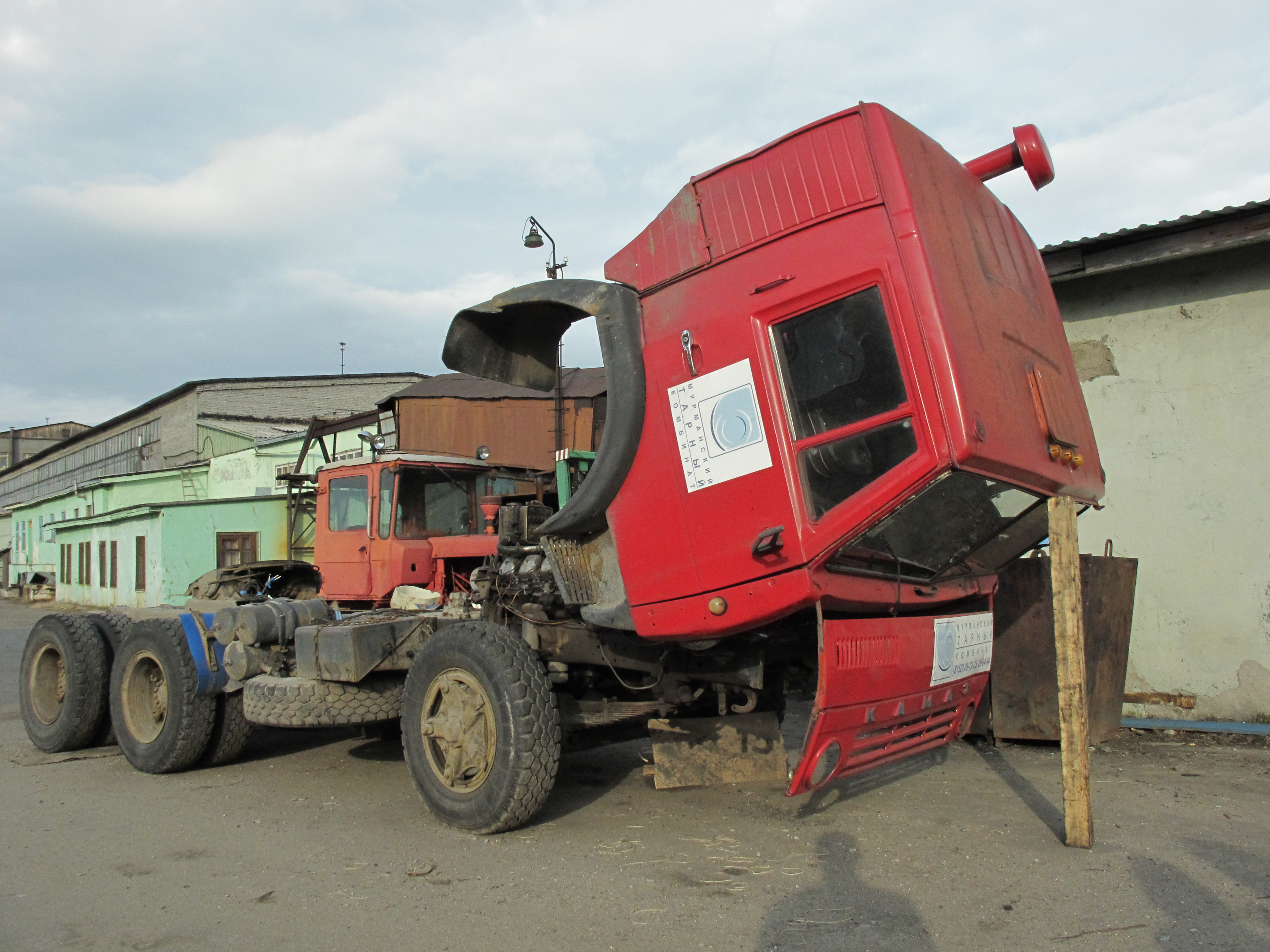 A Kamaz truck in Murmansk, Russia with its folded cabin.